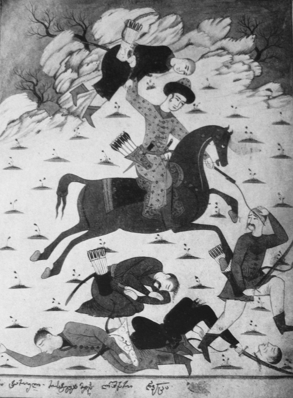 "Tariel killing Rostevan's soldiers". A miniature from the manuscript of "the Knight of the Panther's Skin" by Shota Rustaveli